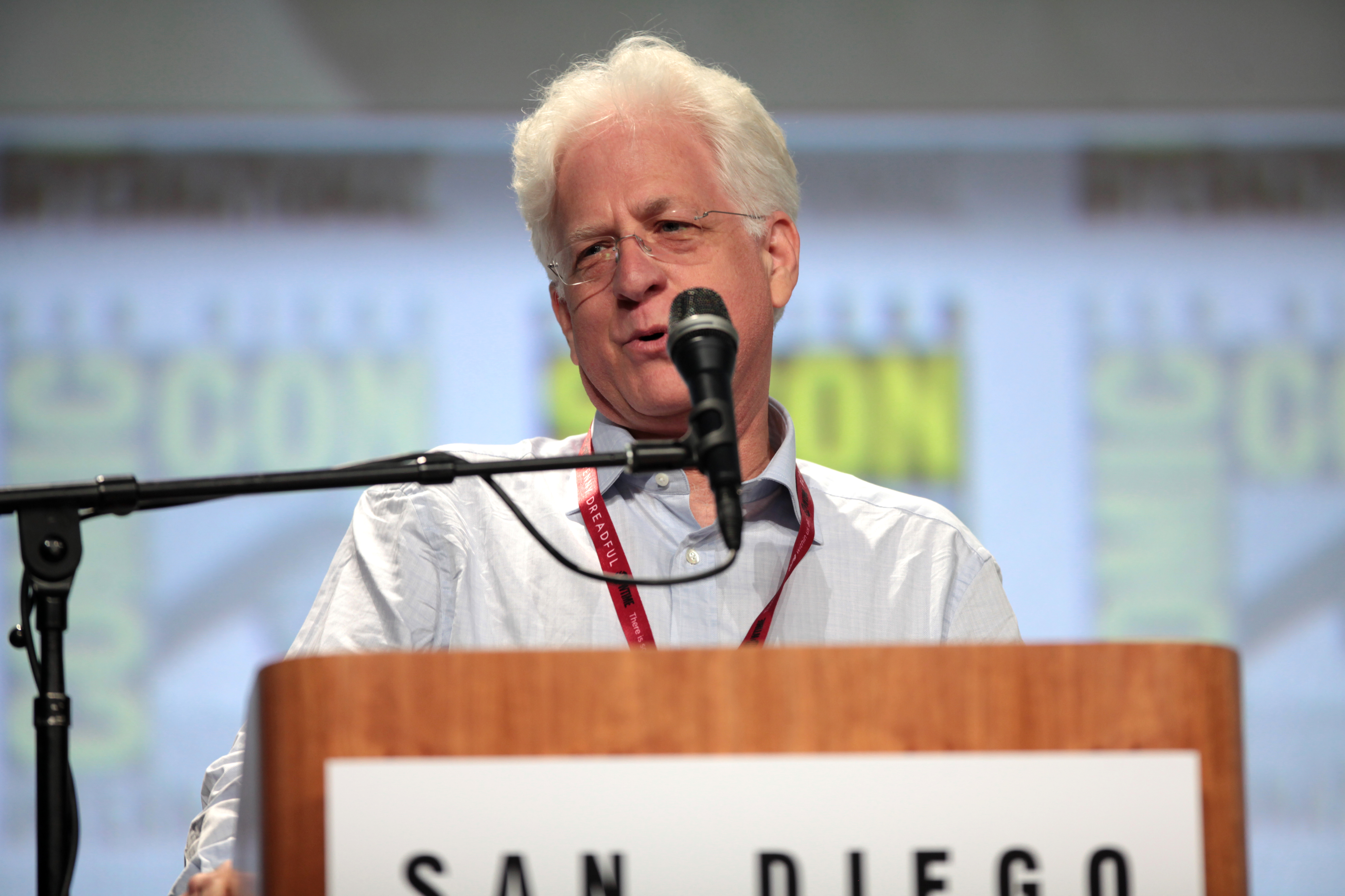 Ron Diamond speaking at the 2014 San Diego Comic Con International, for "Animation Show of Shows", at the San Diego Convention Center in San Diego, California.